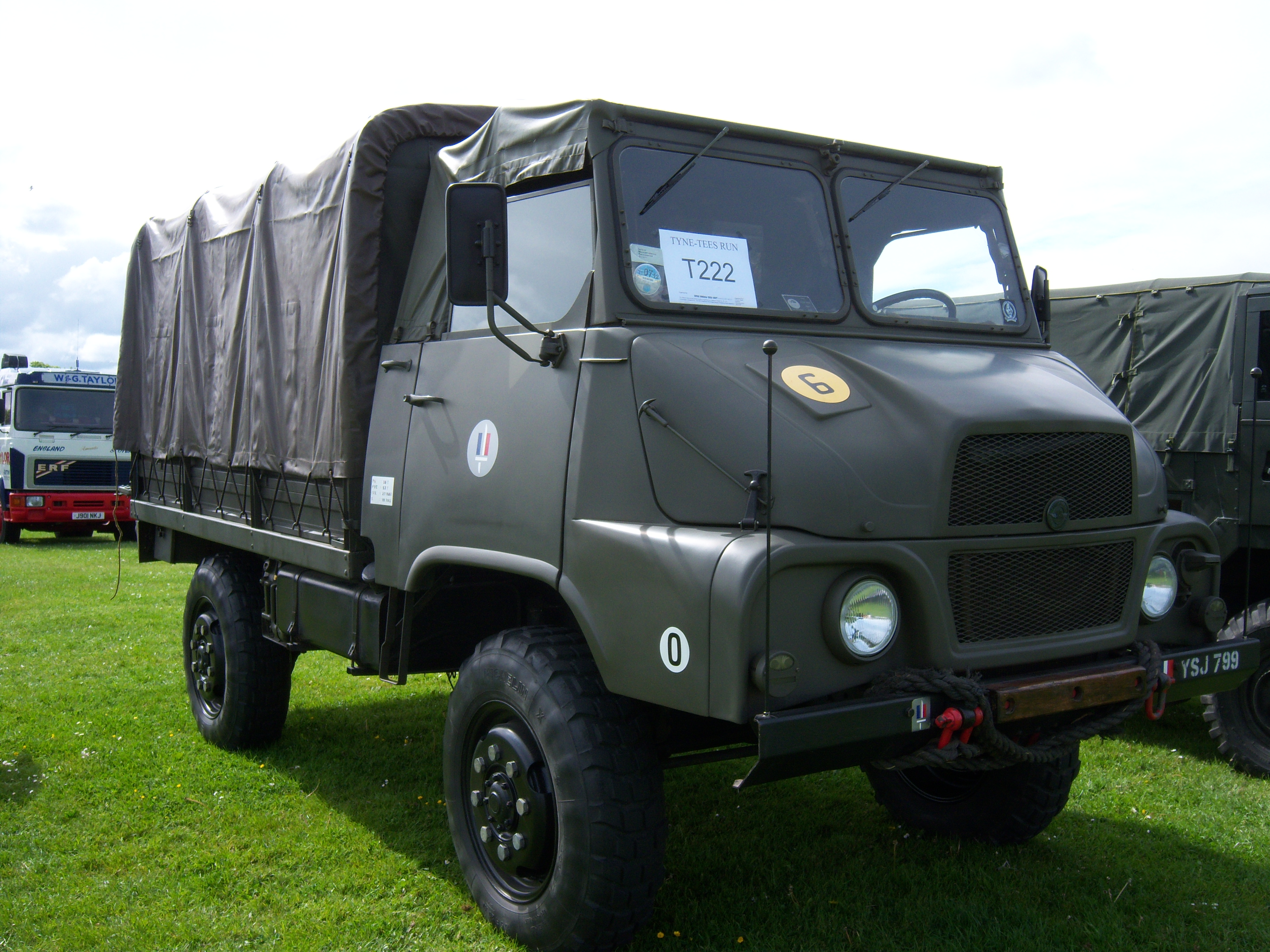 A 1959 SUMB MH600BS (reg. YSJ 799) high mobility military cargo truck, pictured at the end of the 2012 HCVS Tyne-Tees Run. Built for the French Army, it saw service in Bosnia, before being sold in 1990 and imported into the UK.